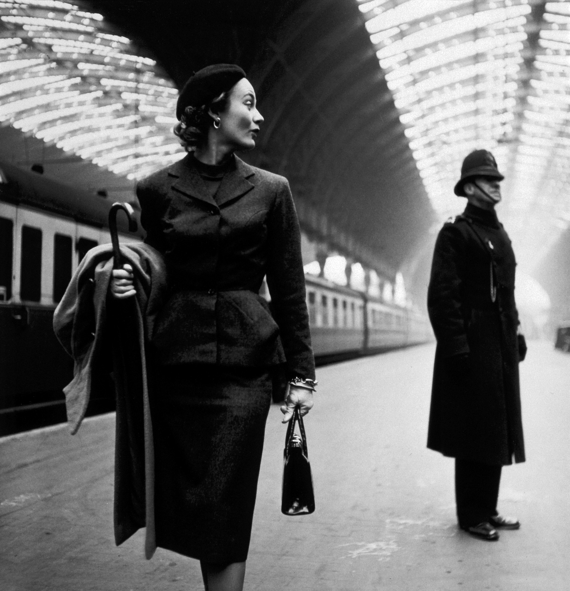 Fashion model (identified as Lisa Fonssagrives with English bobby on a railway station platform. Photograph by Toni Frissell (one of the most celebrated female photographers of the 20th Century), published by Harper's Bazaar in 1951. Part of a collection gifted to the Library of Congress by Frissell. Very poor scan of a very beautiful picture. I tried my best to bring out the contrasts and remove the various artifacts, but I wish they'd clean it up and scan it again. The United States Library of Congress identifies the location as Victoria Station, London, but the station is actually Paddington.